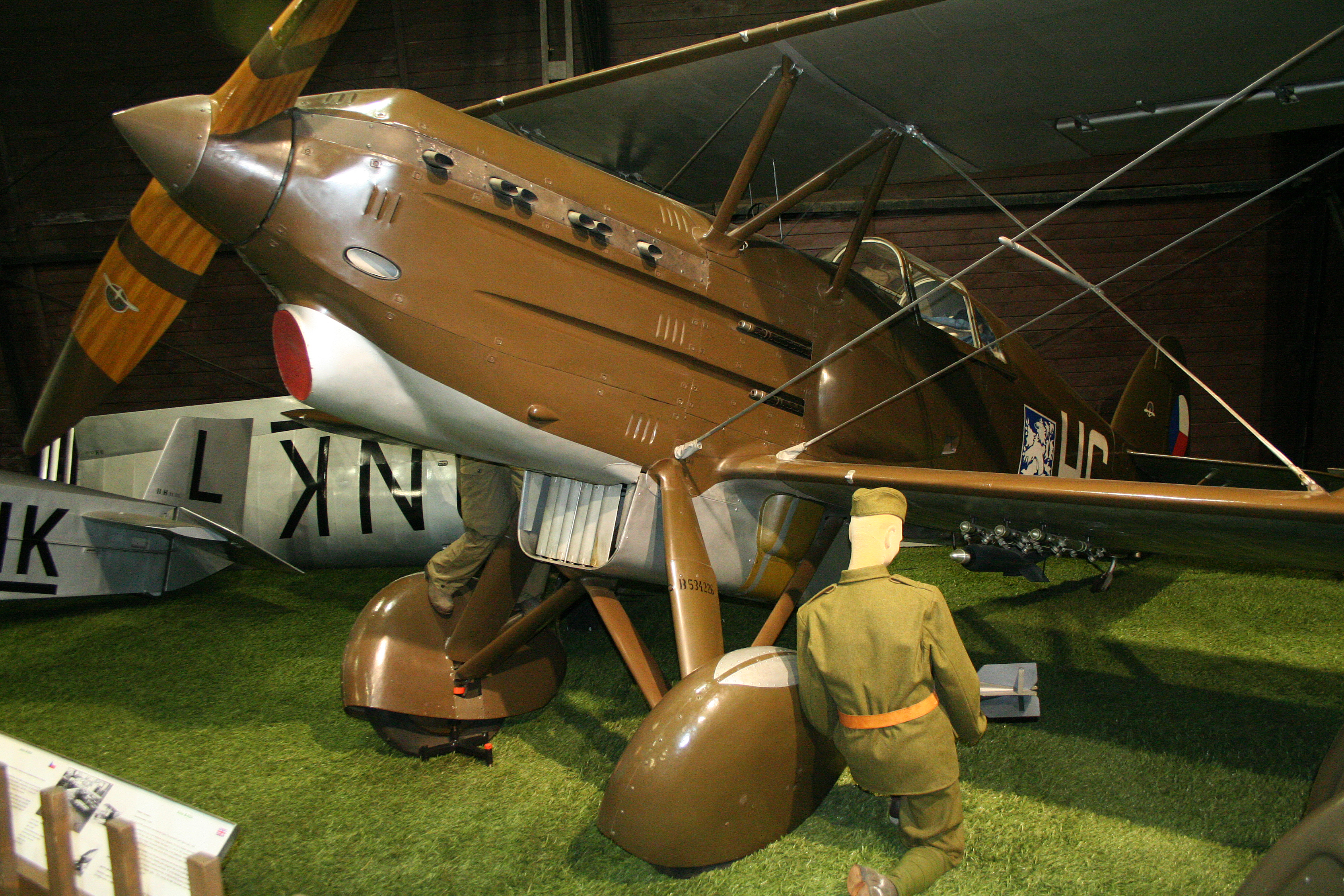 Having got around the tractor by taking a flatter angle, we then find a chap loading a bomb. c/n B534.226. On display in the 1925-1938 hangar. Kbely Museum, Czech Republic. 07-10-2012